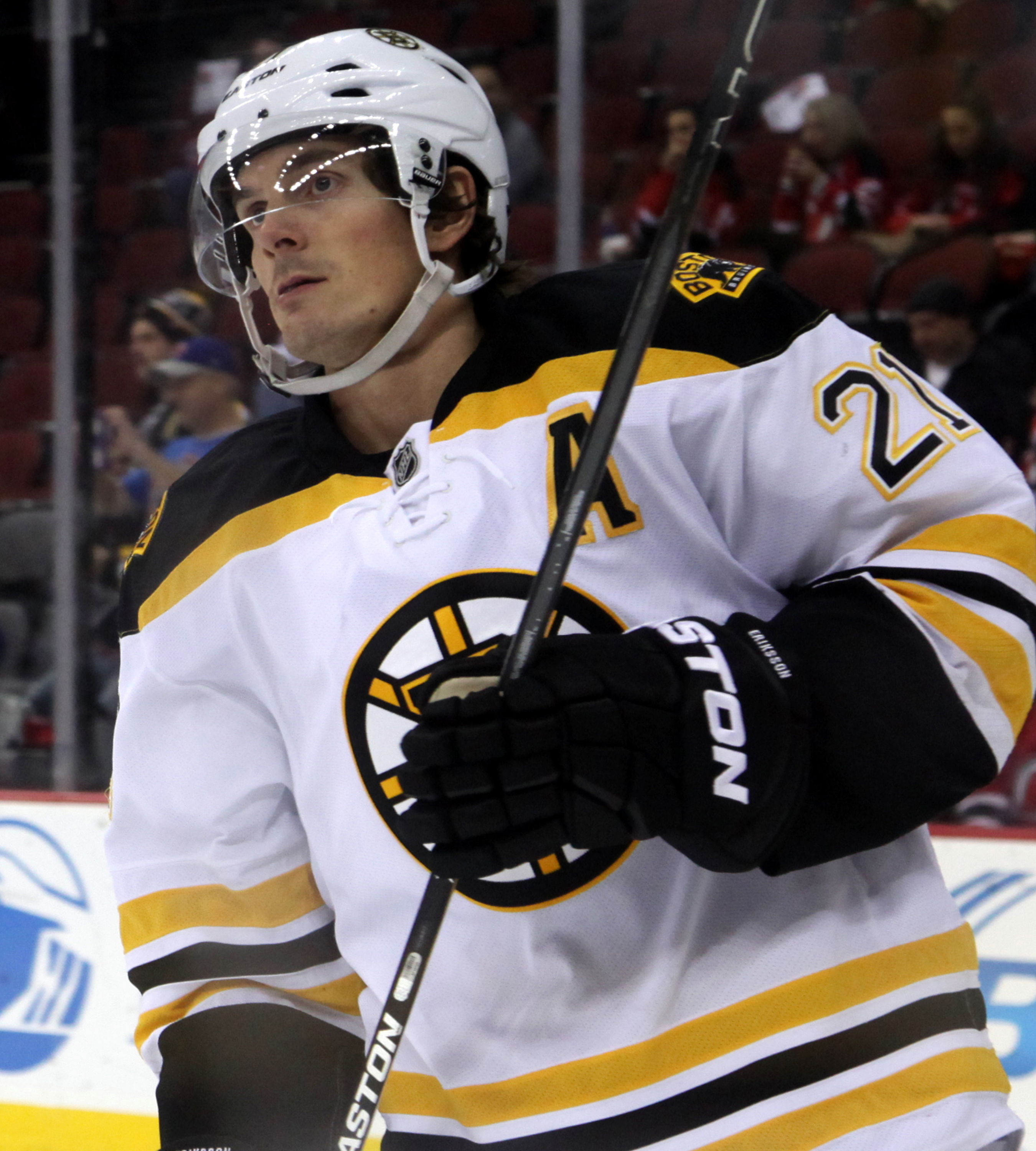 Eriksson in January 2016